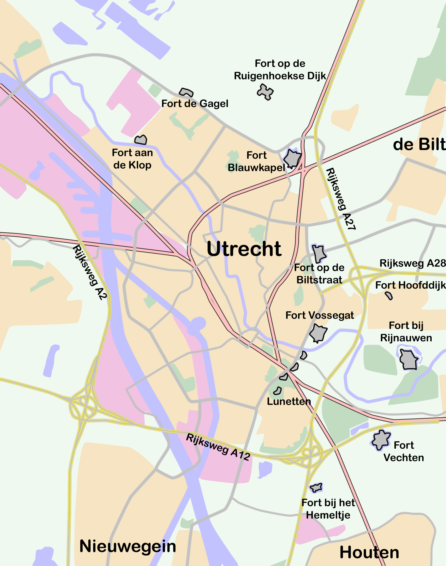 "Forts near Utrecht" in the Netherlands. Disclaimer: The exact location of the forts may differ from reality to a slight extent. Made by Niels Bosboom.